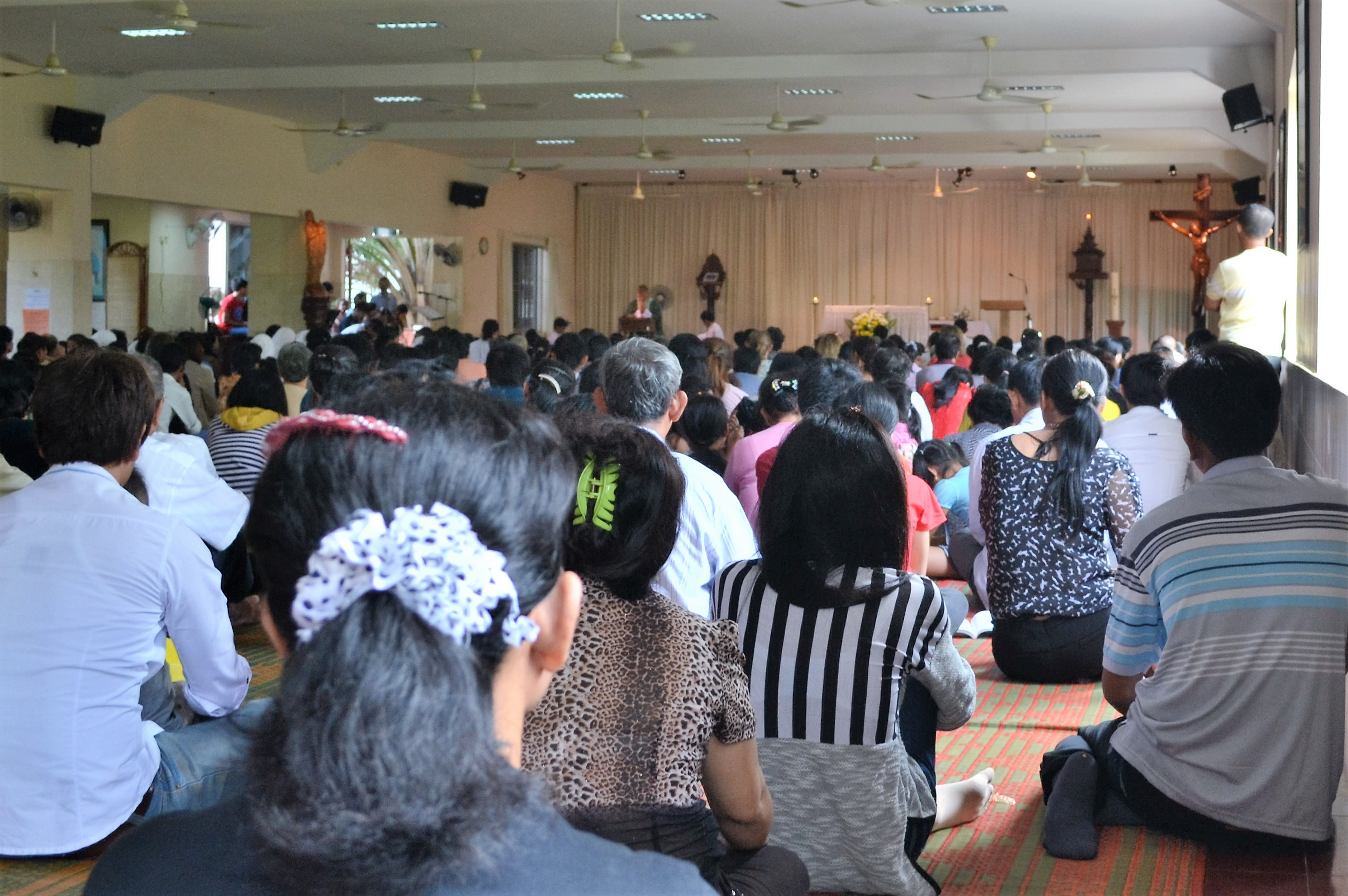 inside during a mass